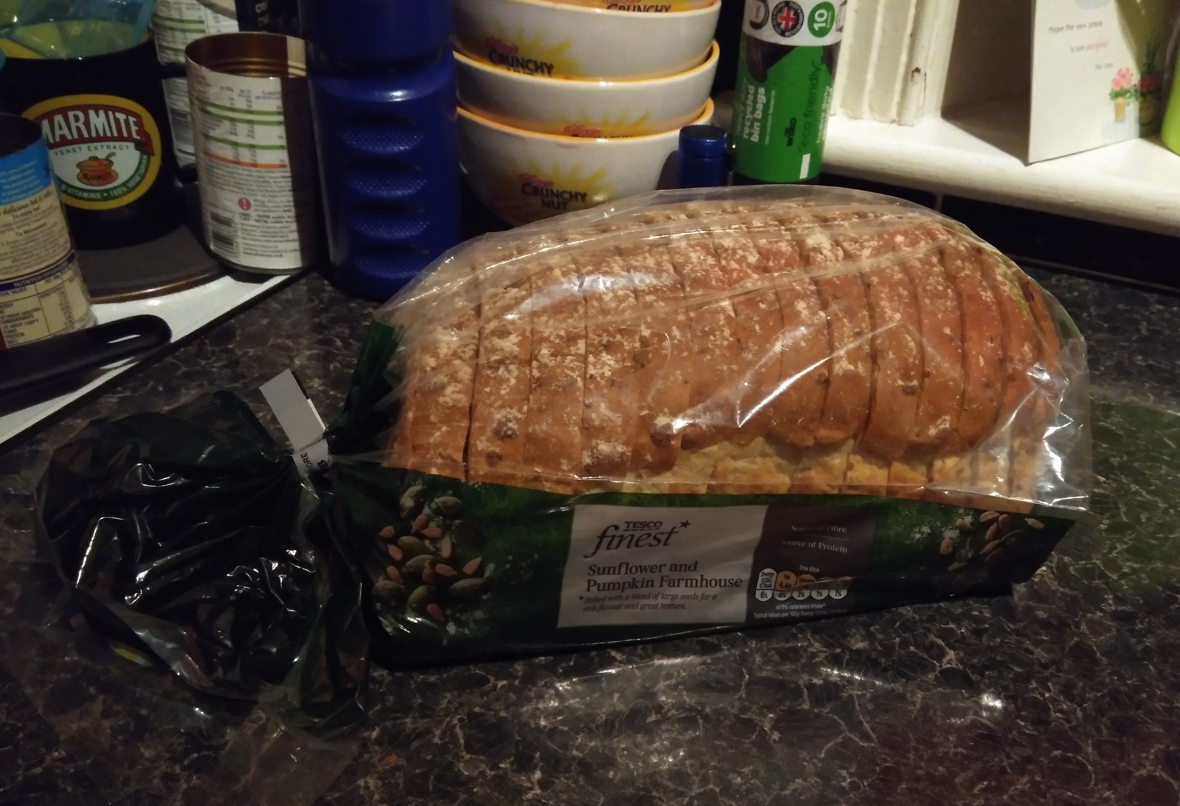 A typical example of a Farmhouse loaf popular in the UK, showing the traditional rounded top style of bread.